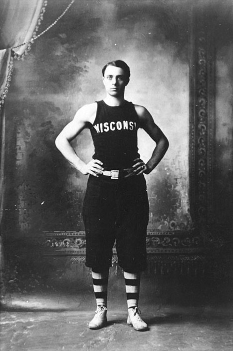 Photograph of Christian Steinmetz